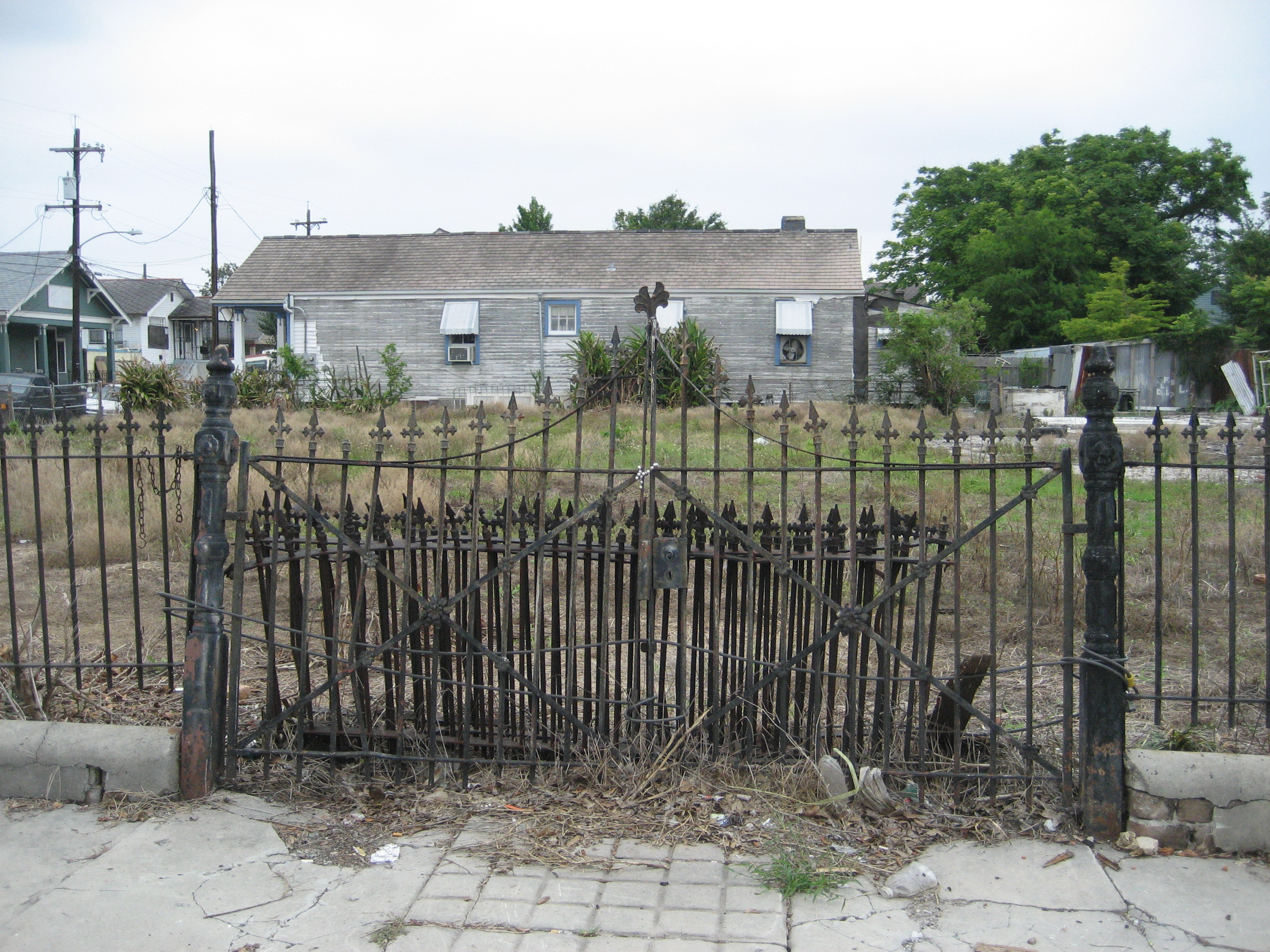 New Orleans: Old metal fence and vacant lot, Bywater neighborhood. Photo by Infrogmation of New Orleans, 20 November 2006.